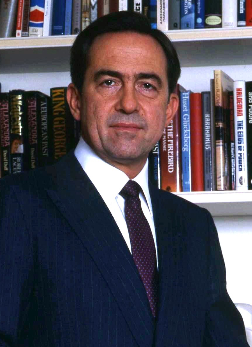 portrait of The former King Constantine & Queen Anne Marie of Greece.